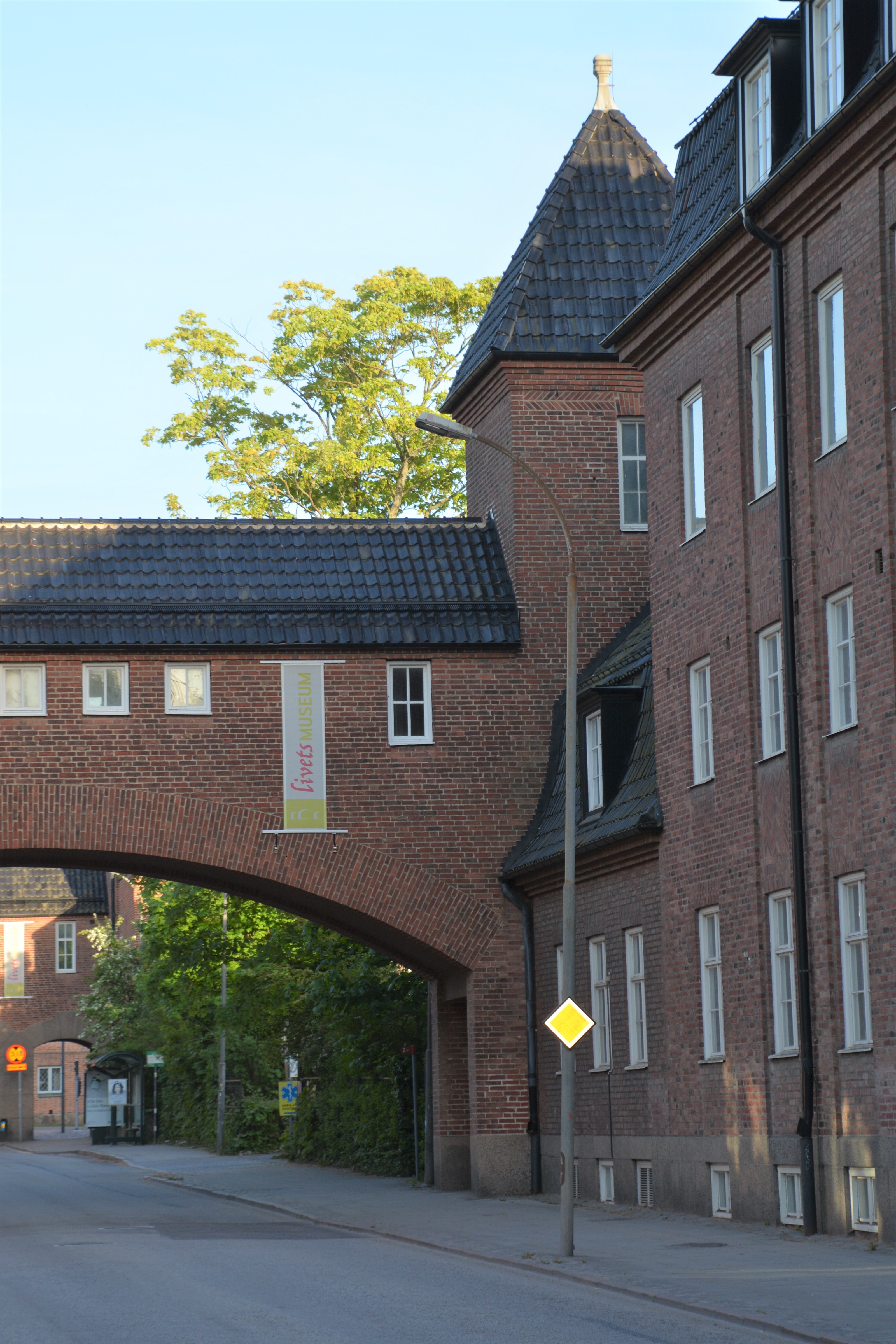 Livets museum, Allhelgona kyrkogata, Lund